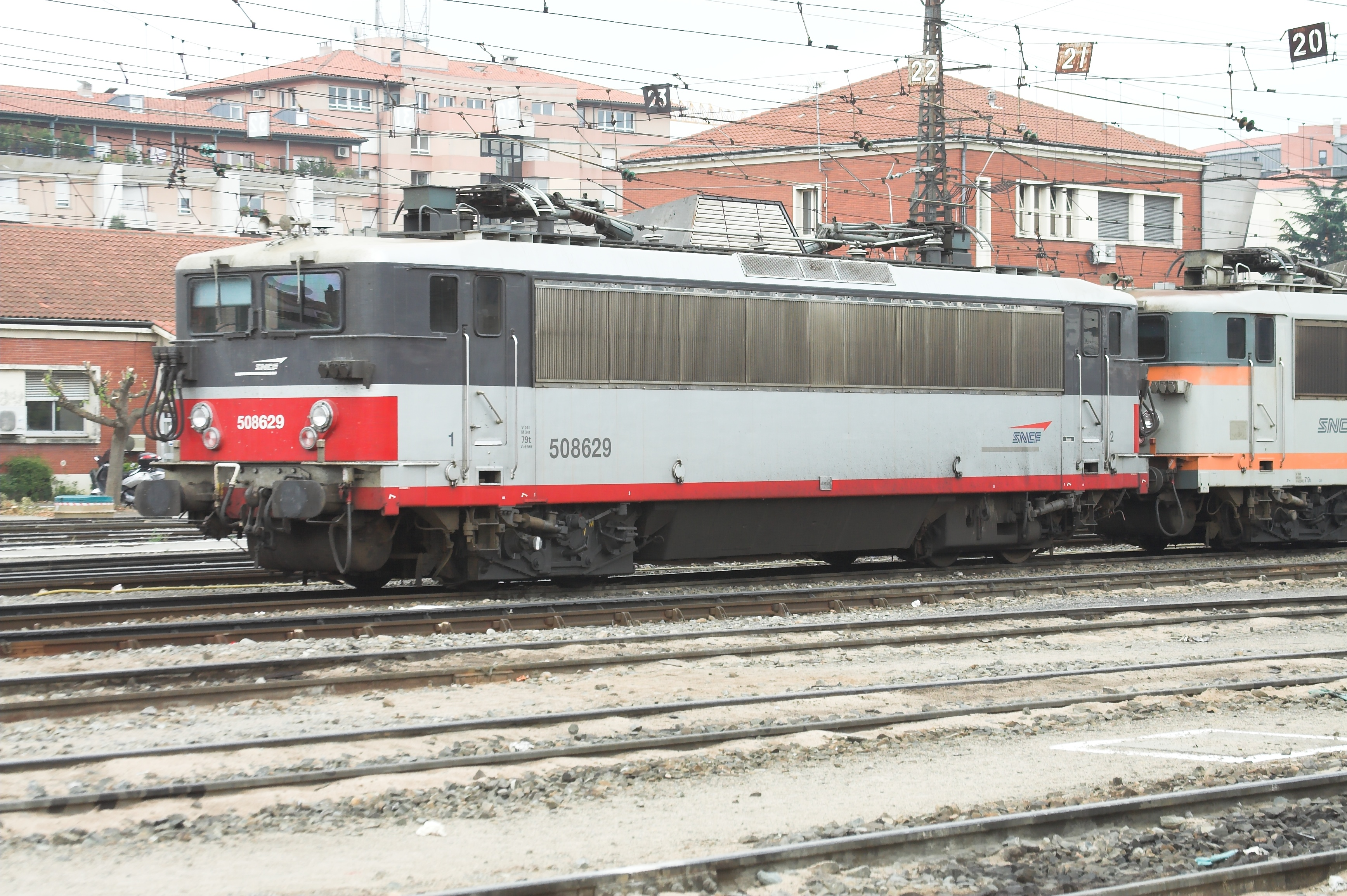 an electric locomotive SNCF BB8500 at the station Matabiau in Toulouse, France